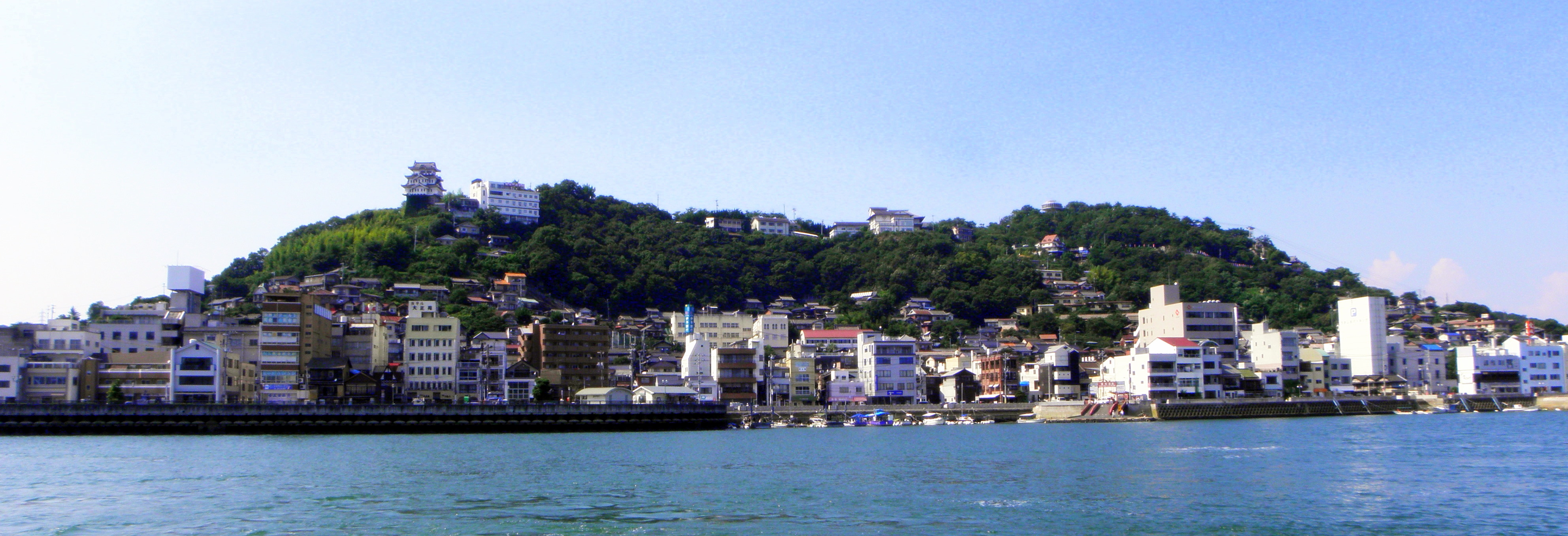 Onomichi as viewed from Mukaishima Port